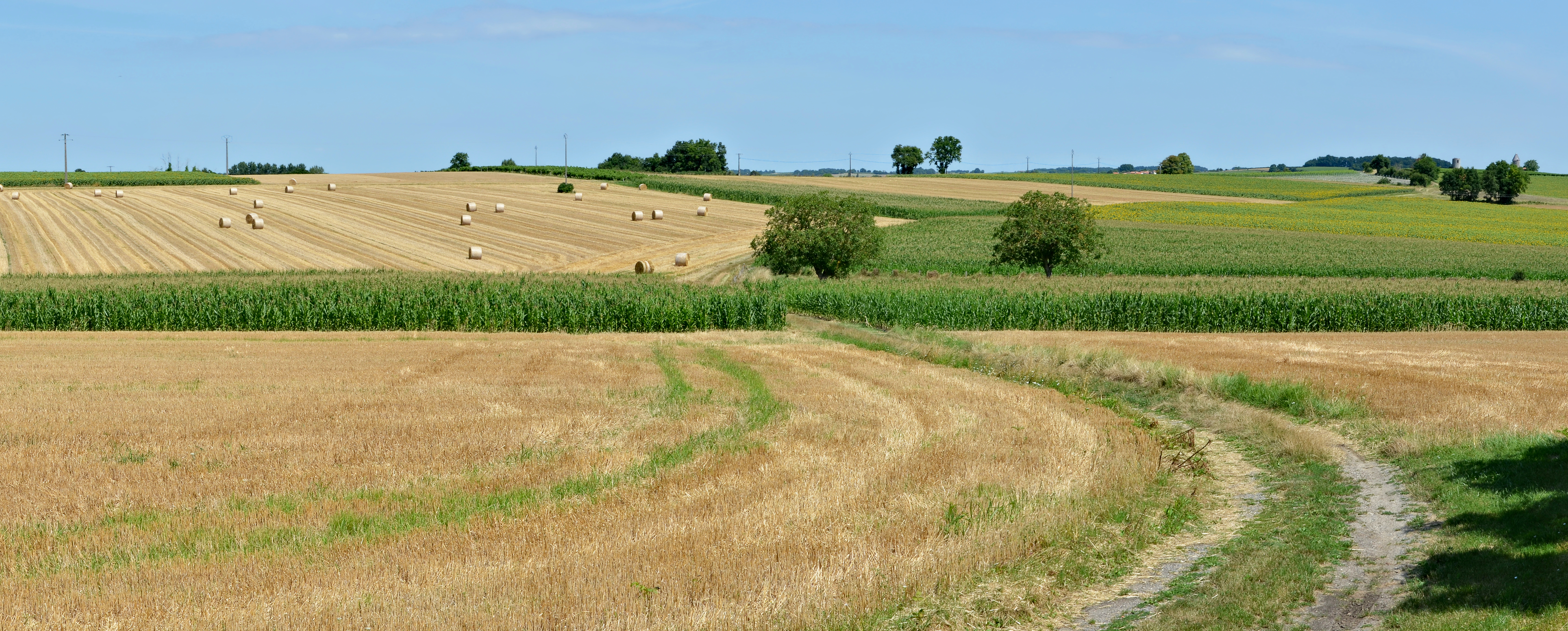 Country path and polyculture (wheat, corn, sunflowers), Bessac, Charente, France.